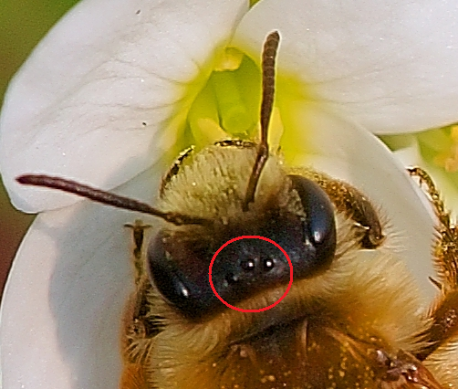 Andrena eyes details